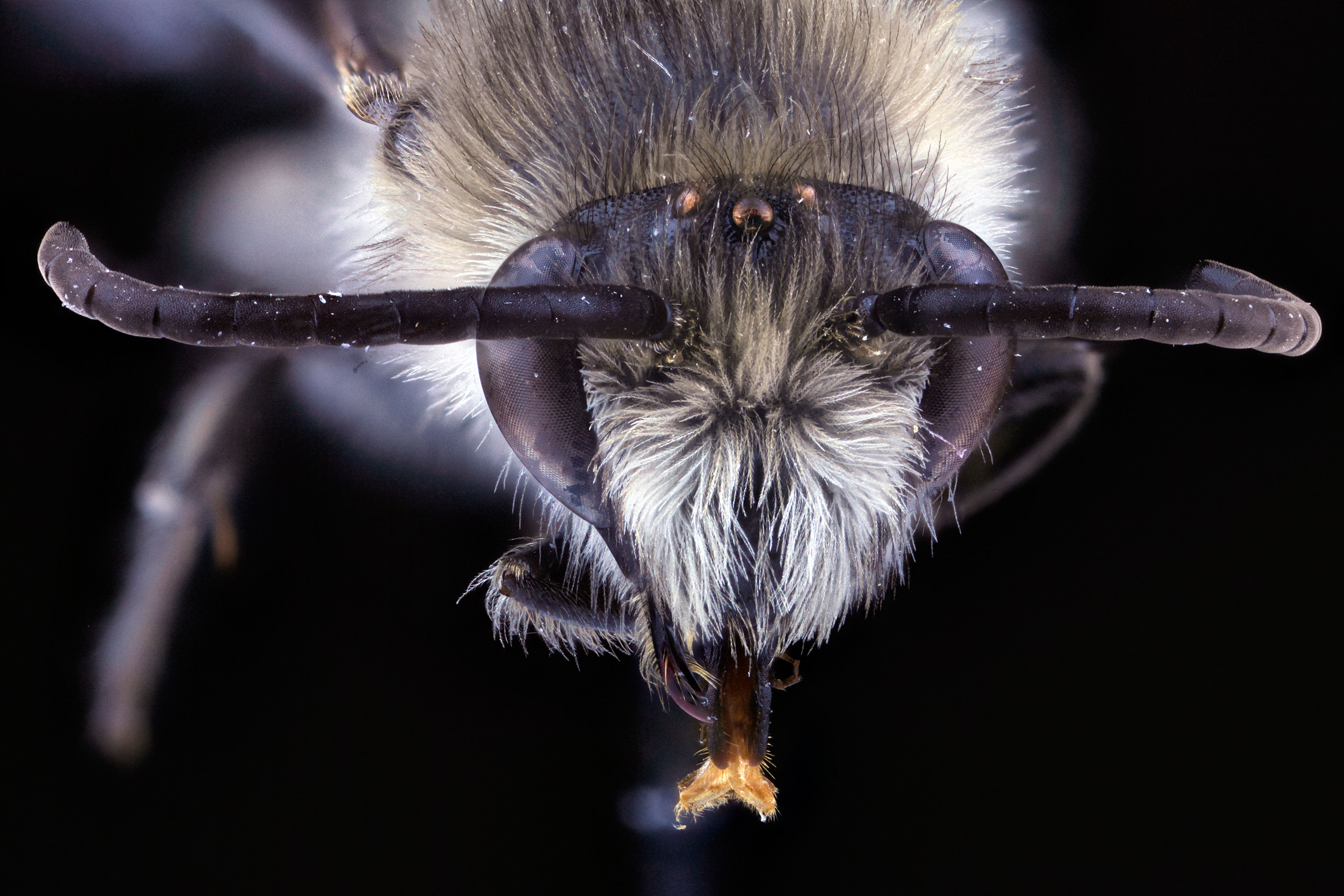 Colletes compactus, head, female